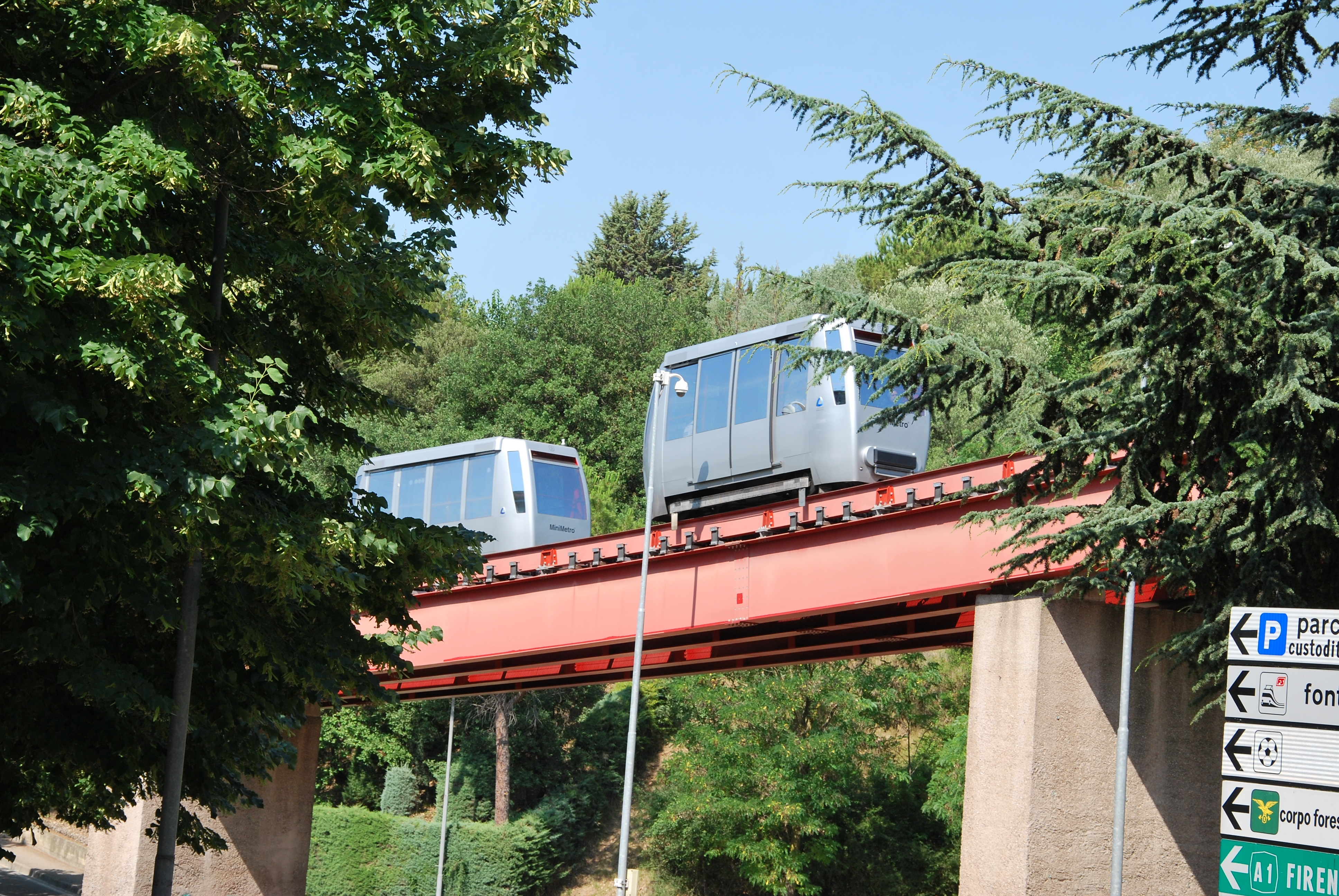 Minimetro in Perugia